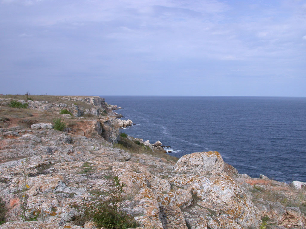 Bulgarian Black Sea coast near Kamen bryag village